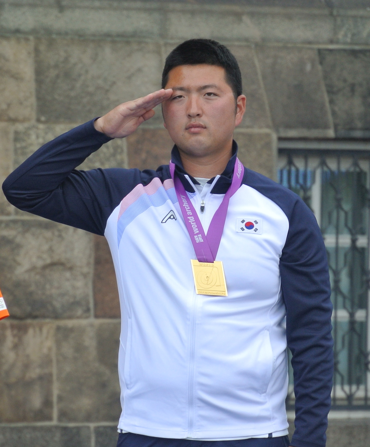 Kim Woo-Jin at the Men's Individual medal ceremony at the 2015 World Archery Championships in Copenhagen